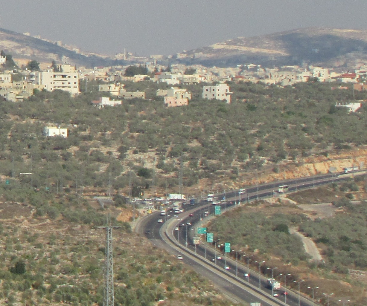 Gitai Avisar Junsction between route 5 and road 505